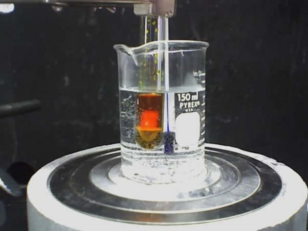 Ketone derivative of 2,4-dinitrophenylhydrazine, forming 2,4-dinitrophenylhydrazone derivative. This process was used in order to verify the identity of the unknown ketone, which was found to be 3-heptanone.